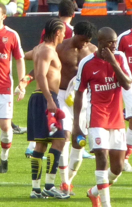 Benoît Assou-Ekotto, Alexandre Song and William Gallas